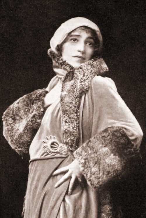 Henri Manuel (24 April 1874, Paris – 11 September 1947, Neuilly-sur-Seine) was a Parisian photographer who served as the official photographer of the French government from 1914 to 1944.